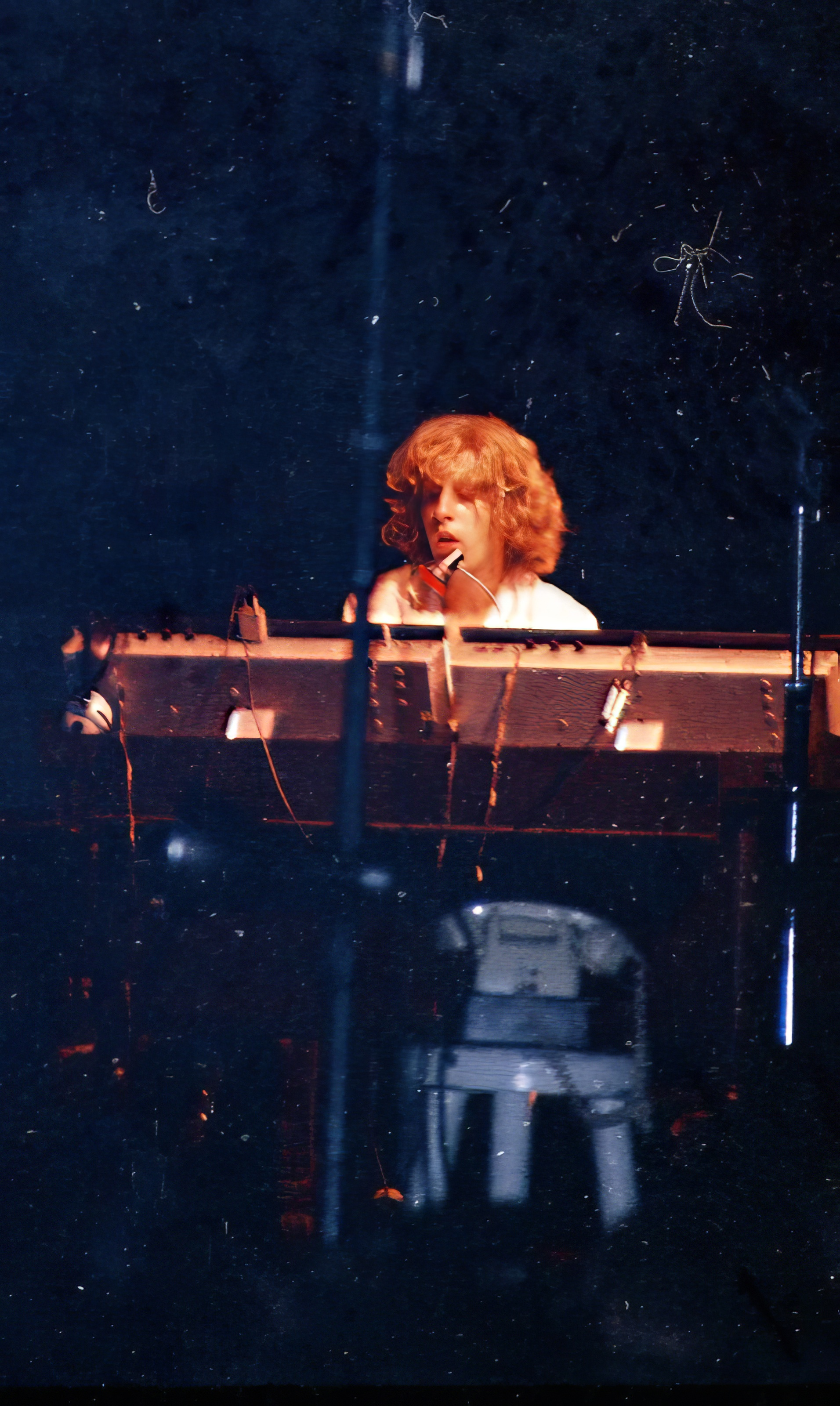 Keyboardist John Evan from Jethro Tull - September, 1973 Chicago Stadium - the "Passion Play" tour